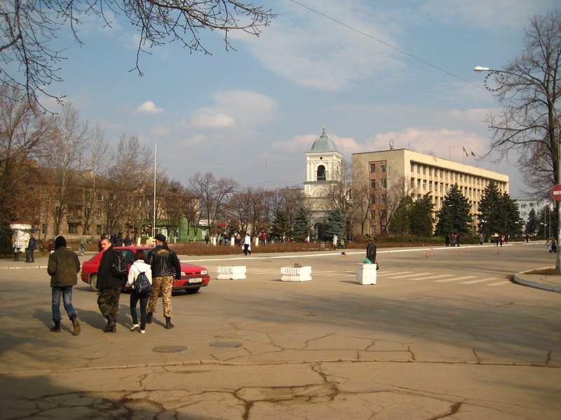 ул. Ленина - бывший центр торговли